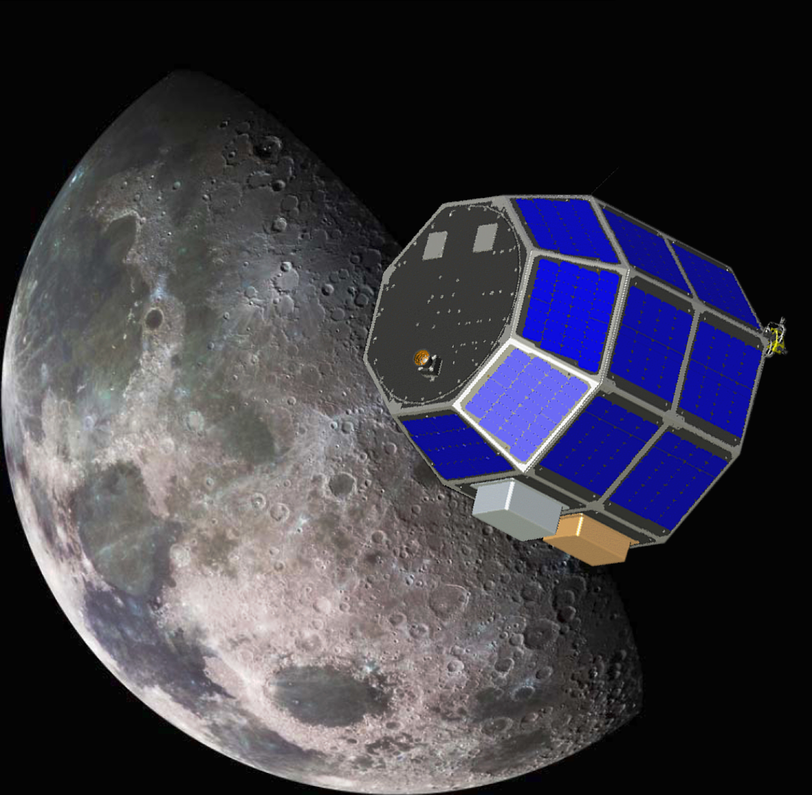 LADEE lunar orbiter